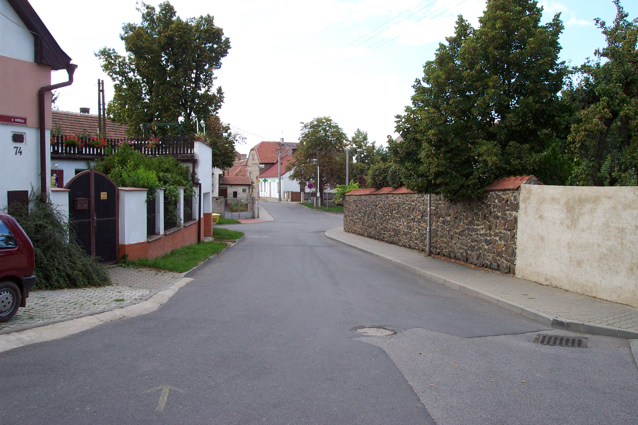 Horoměrice, village near Prague, its buildings and also buildings in surroundings